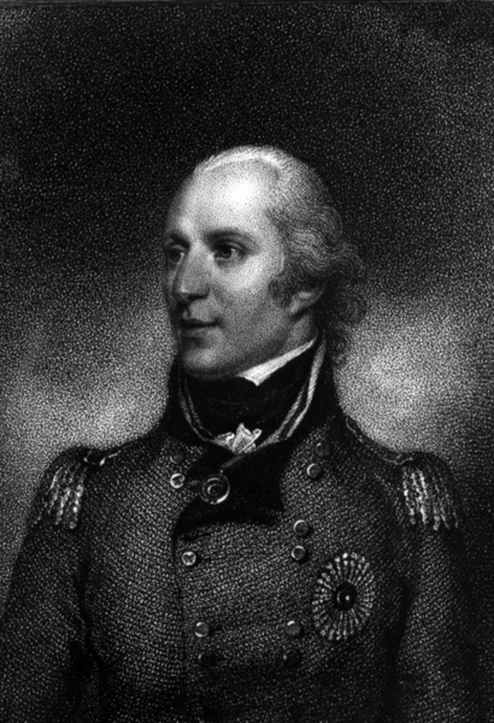 John Stuart, comte de Maida, lieutenant-général britannique (1759-1815).